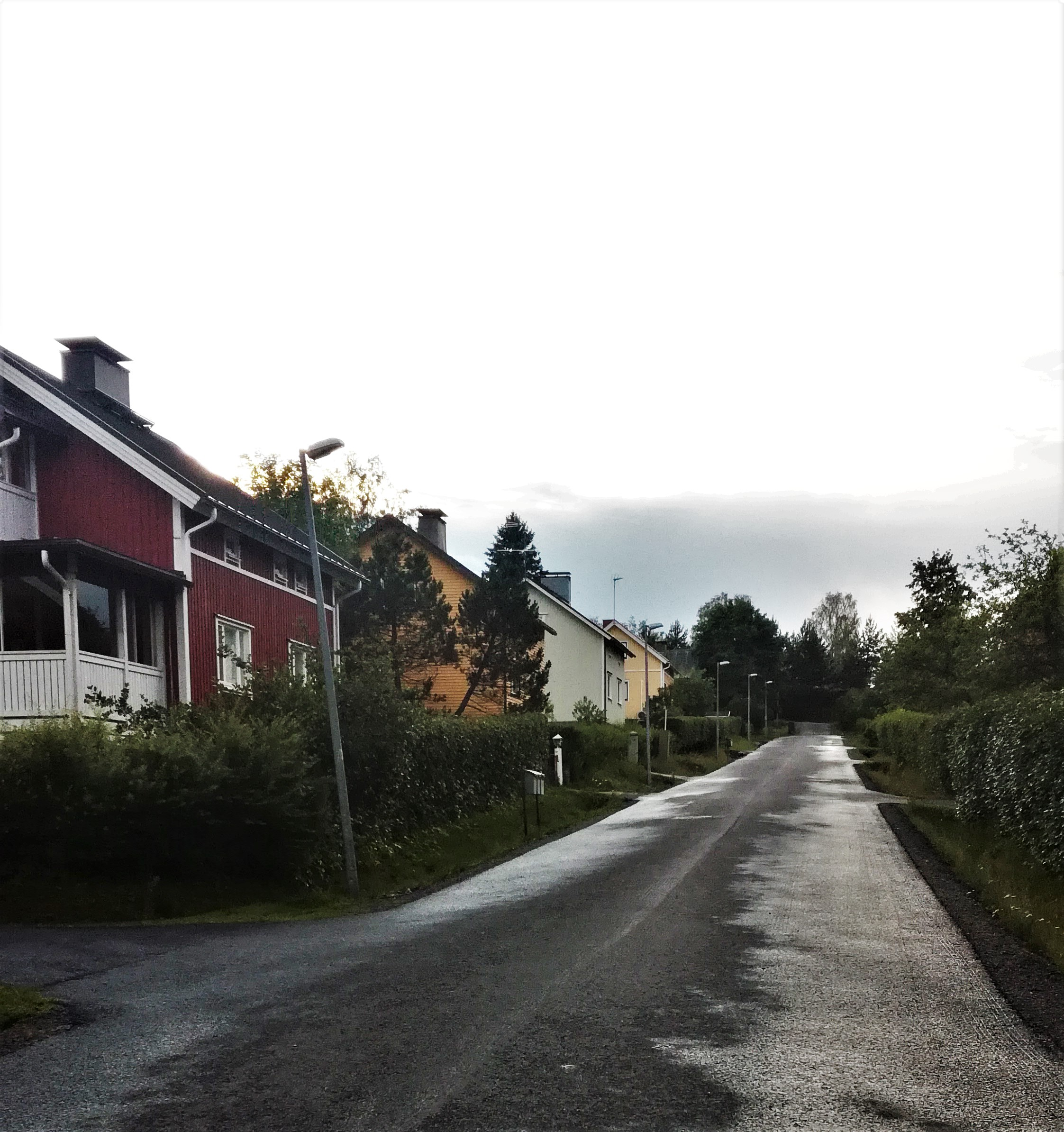 Street Kyyhkysentie in Kyyhkysenmäki, Jyväskylä, Finland.